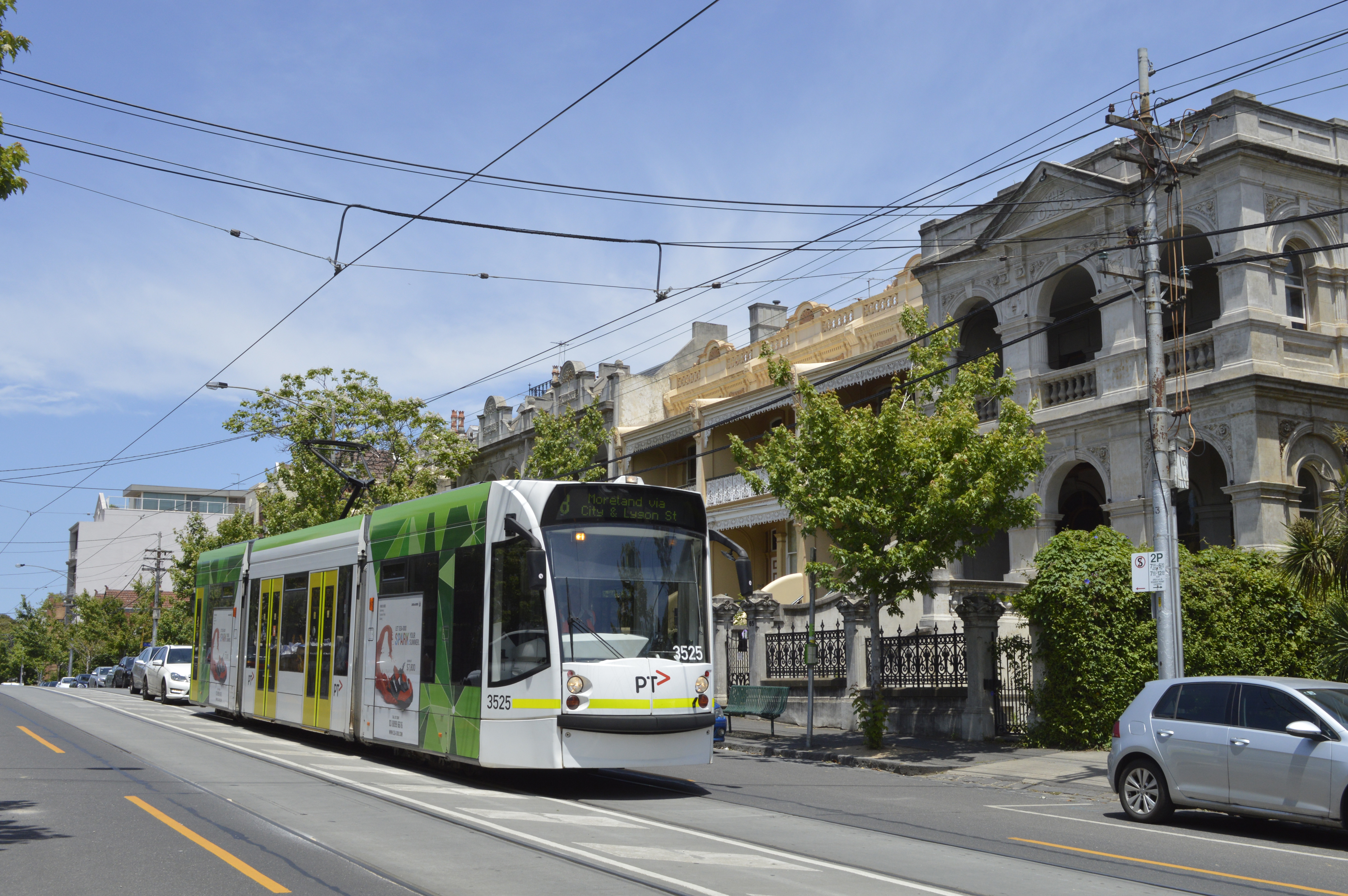 Tram D1.3525 seen trundling along Park Street in South Yarra along the former route 8. Route 8 no longer exists after merging with route 55 to form route 58. This section of the tram network along Park Street and Domain Road has since closed for Metro Rail Tunnel works, replaced with a new line along Toorak Road.